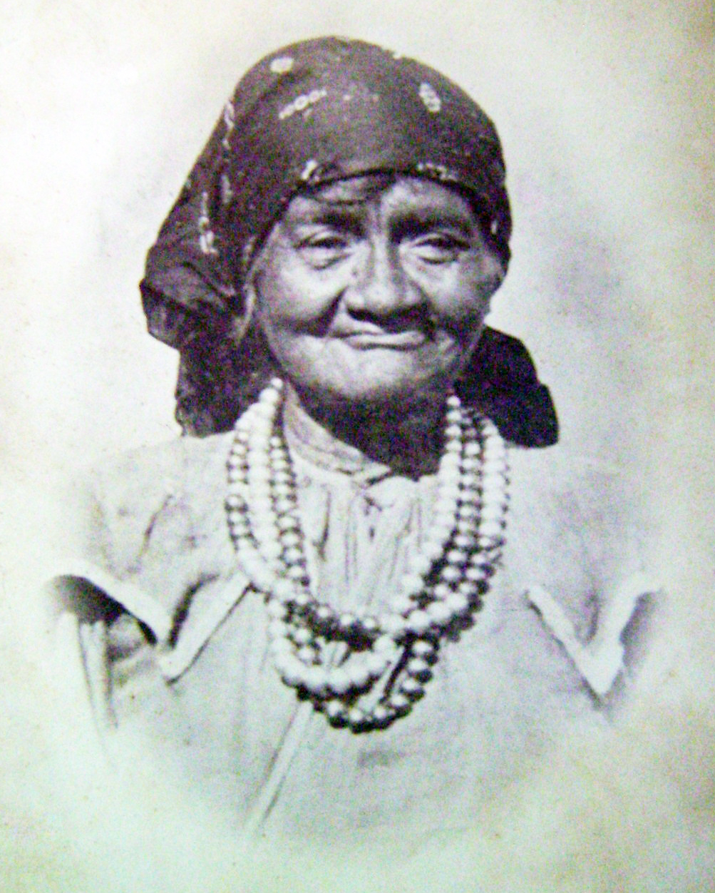 India Vanuíre